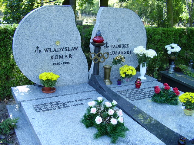 Grave of Władysław Komar and Tadeusz Ślusarski Polish Olympians who died together in a car crash.